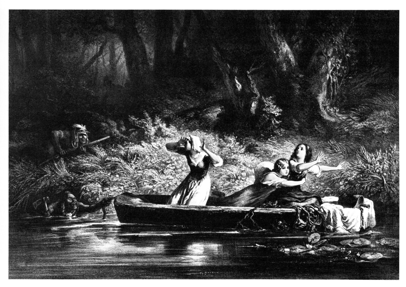 Capture of the Daughters of D. Boone and Callaway by the Indians. Lithograph after Karl Bodmer and Jean-François Millet.